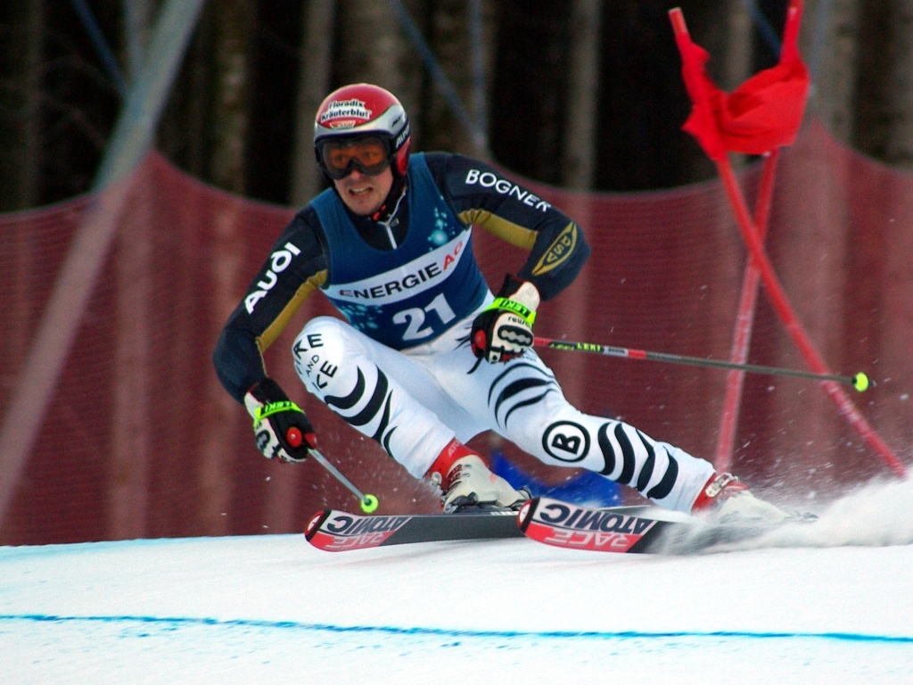 German alpine skier Peter Strodl during the European Cup Giant Slalom in Hinterstoder, Austria on January 11, 2008.